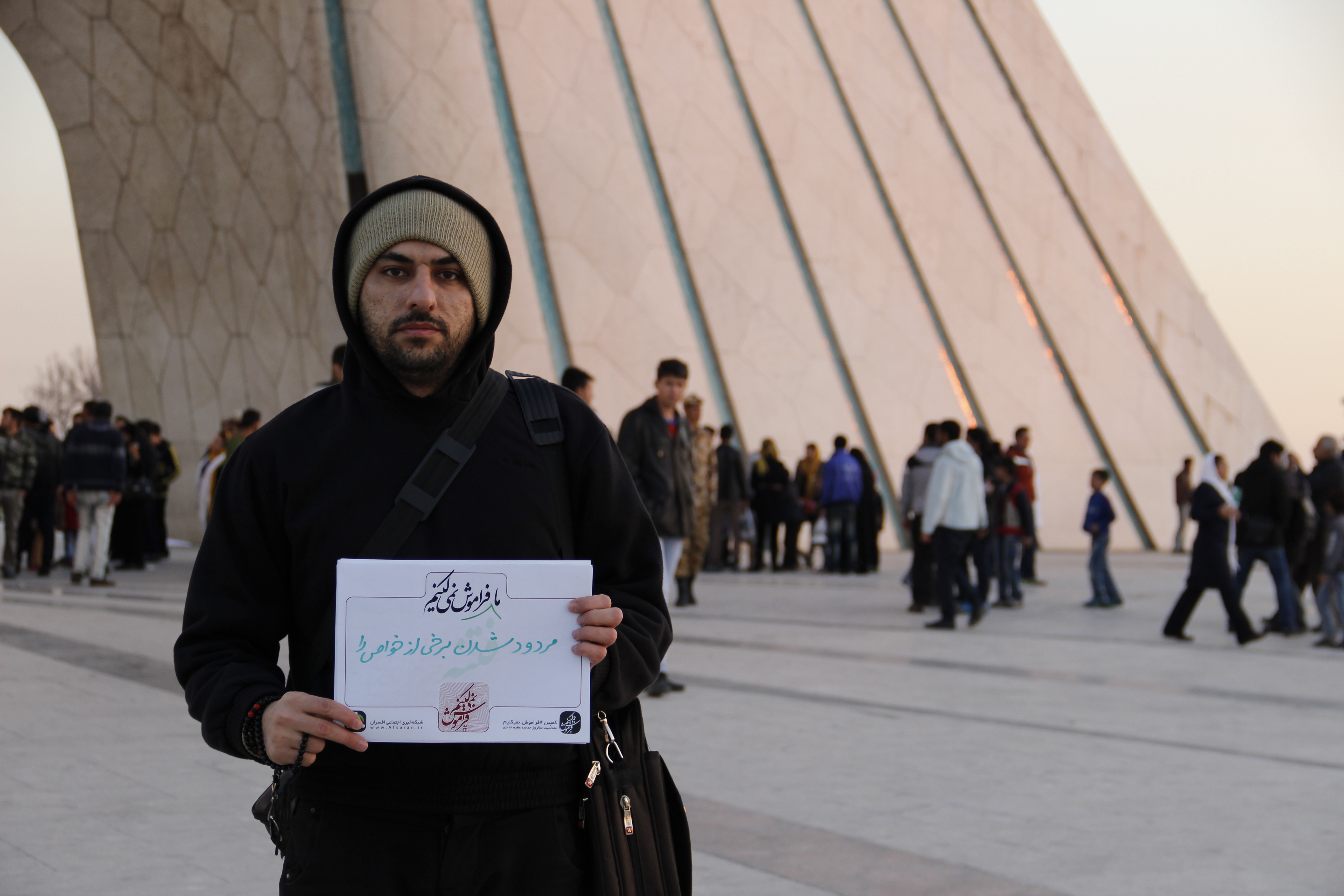 A man holding a sign saying "We won't forget" at Azadi square, Tehran.